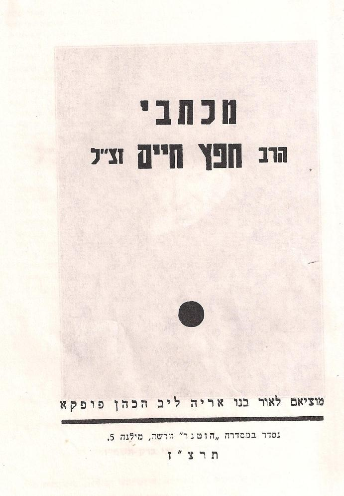 book from "hofetz hayim"